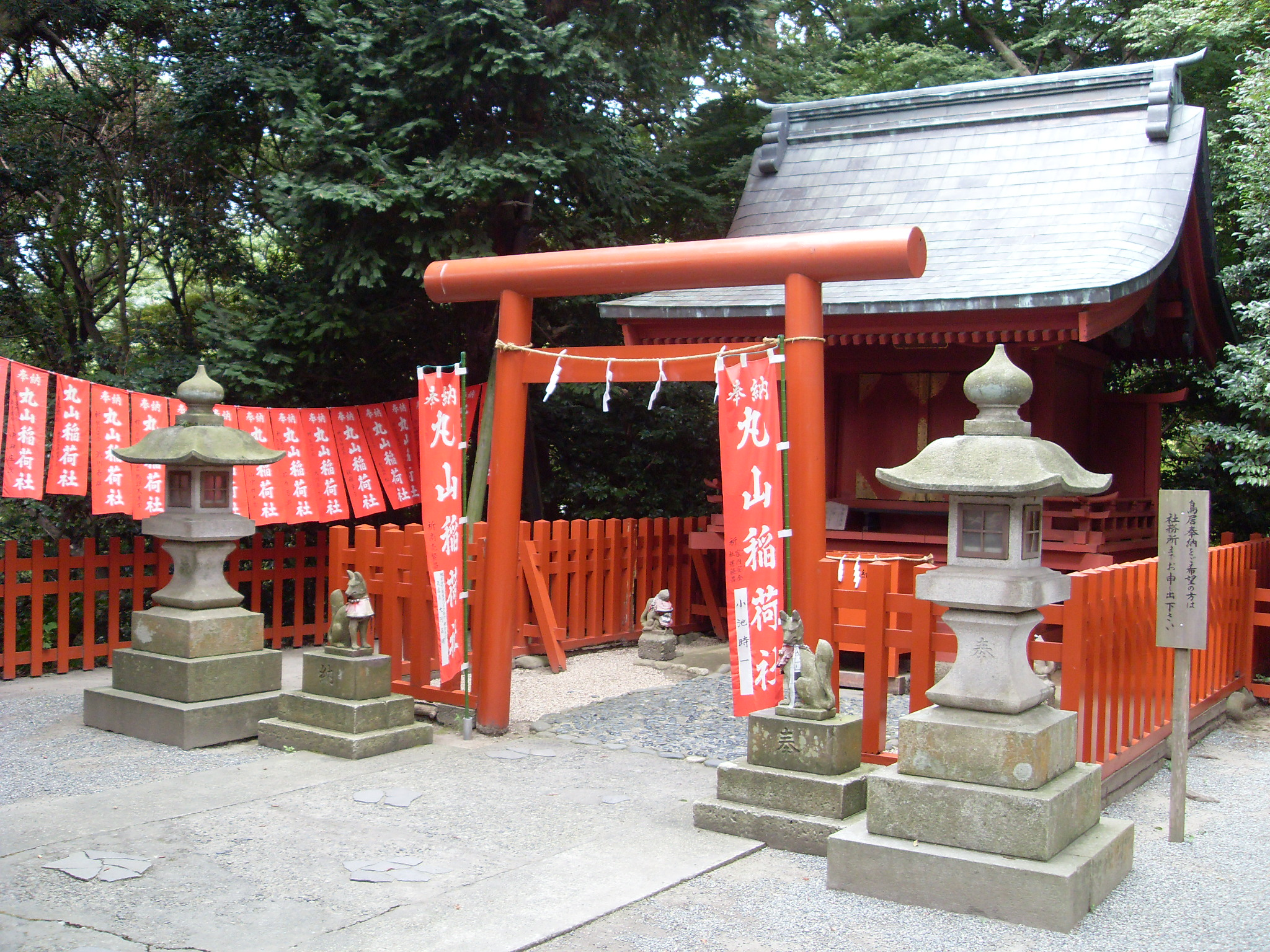 Maruyama Inari Shrine at Tsurugaoka Hachiman-gu Shrine in Kamakura.